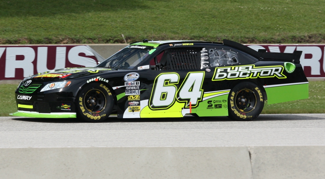 NASCAR driver Jason Bowles racing his stock car at Road America at the 2011 Bucyros 200 Nationwide Series race.